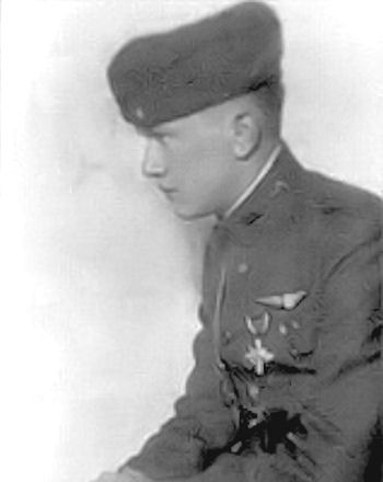 Clinton Leonard Jones 22d Aero Squadron